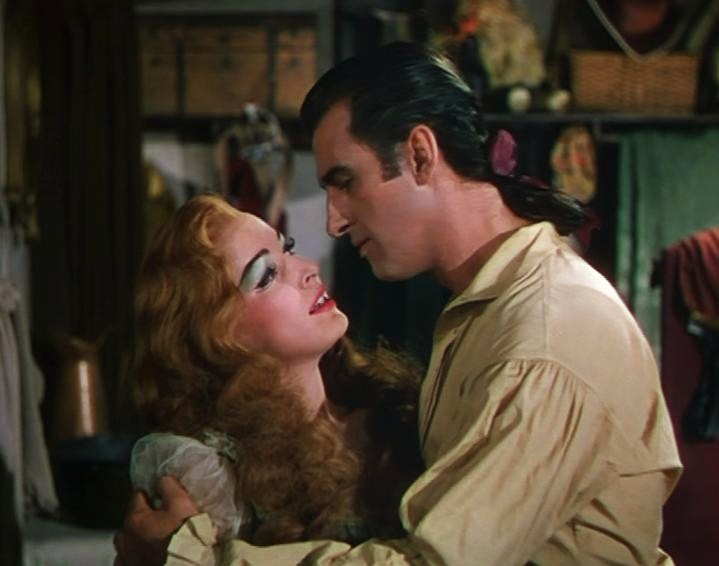 Eleanor Parker & Stewart Granger in Scaramouche - trailer (cropped screenshot)